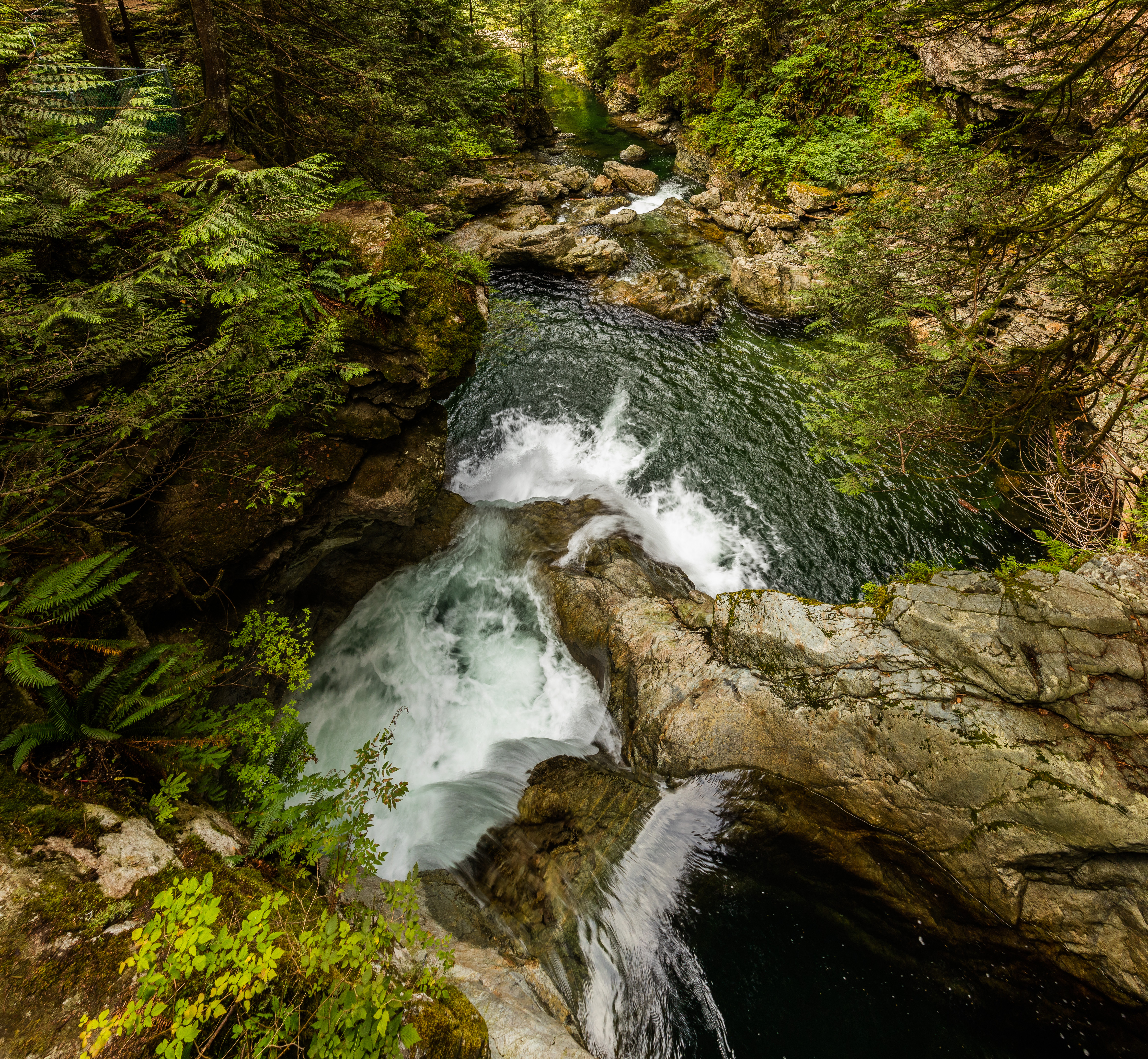 Lynn Canyon Park, Vancouver, Canada